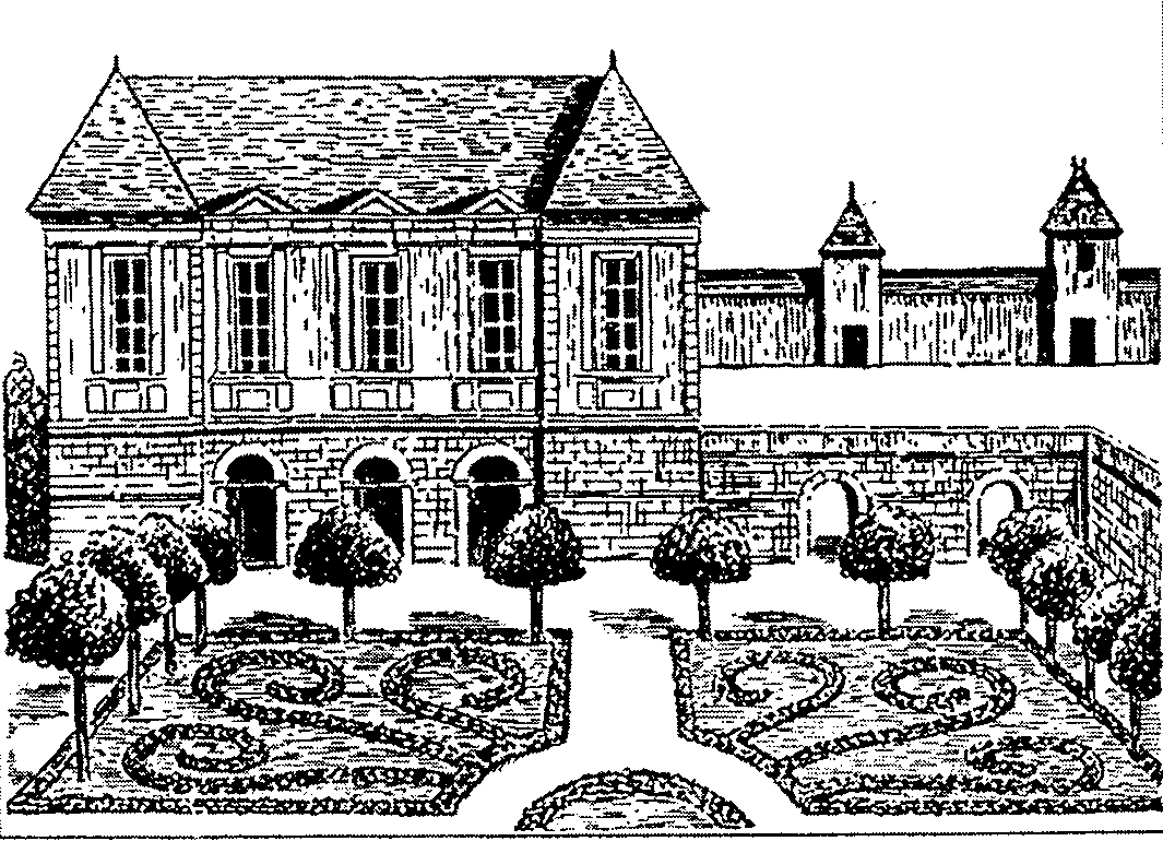 Catherine de Vivonne,Marquise de Rambouillet's house